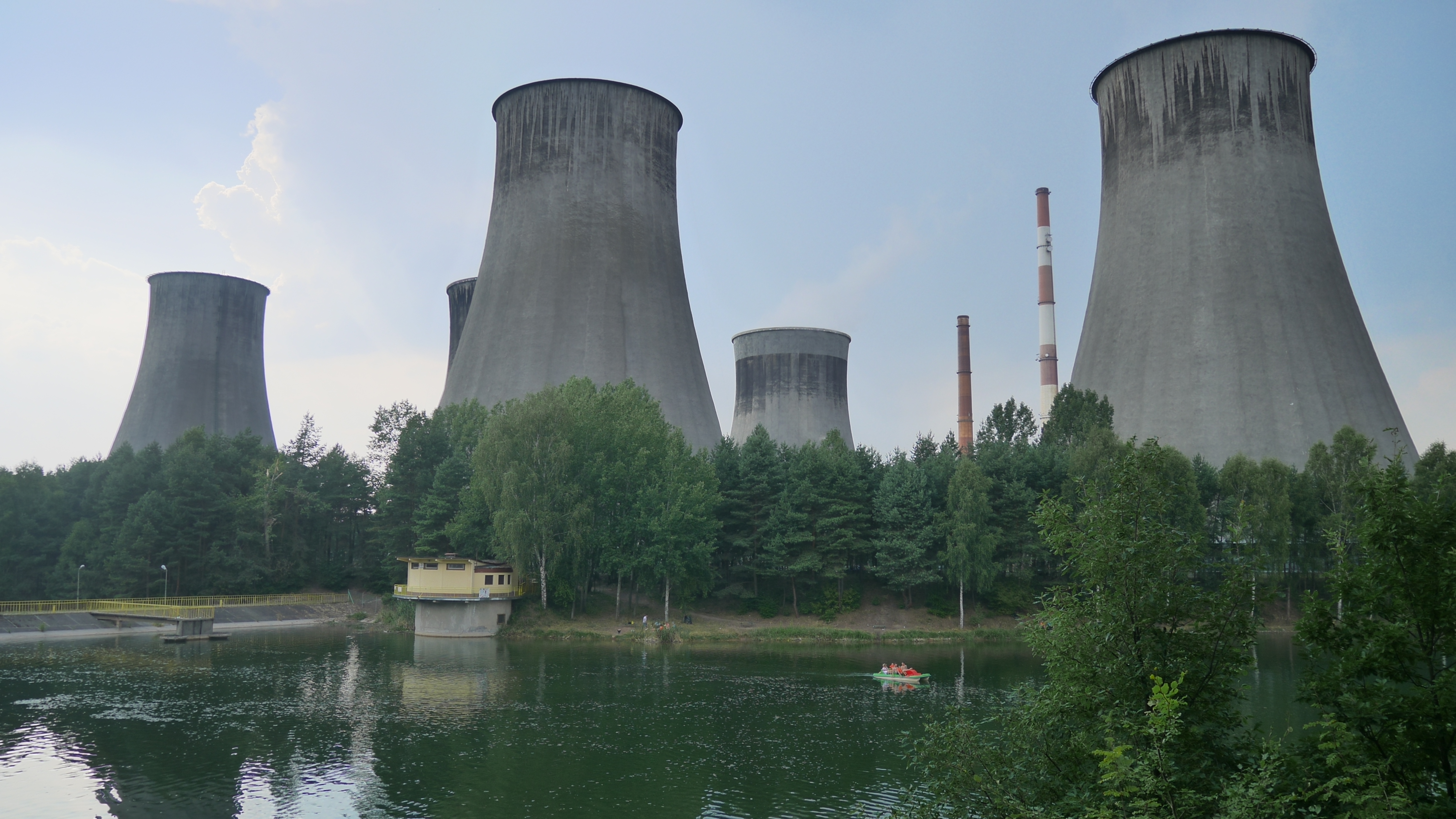 This photo was taken with Panasonic Lumix DMC-GM5 camera, thanks to Panasonic.You can see all photographs in category: Taken with Panasonic Lumix DMC-GM5.